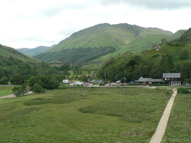 Glenfinnan: view back from the tower This is the view back towards the visitor centre, once you have reached the top of the monument.